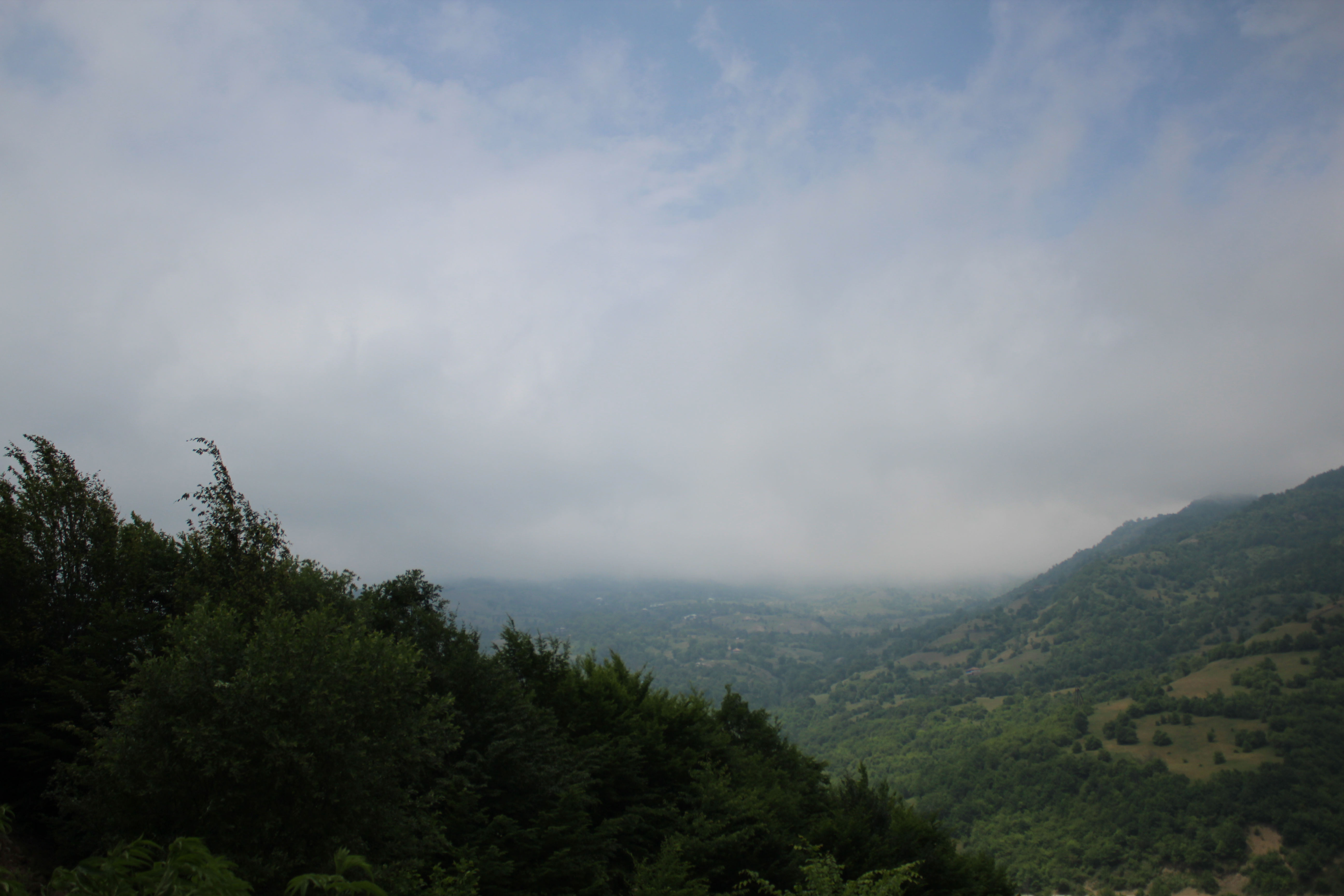 Landscape of Gyba Rayon of Azerbaijan, near Afurja